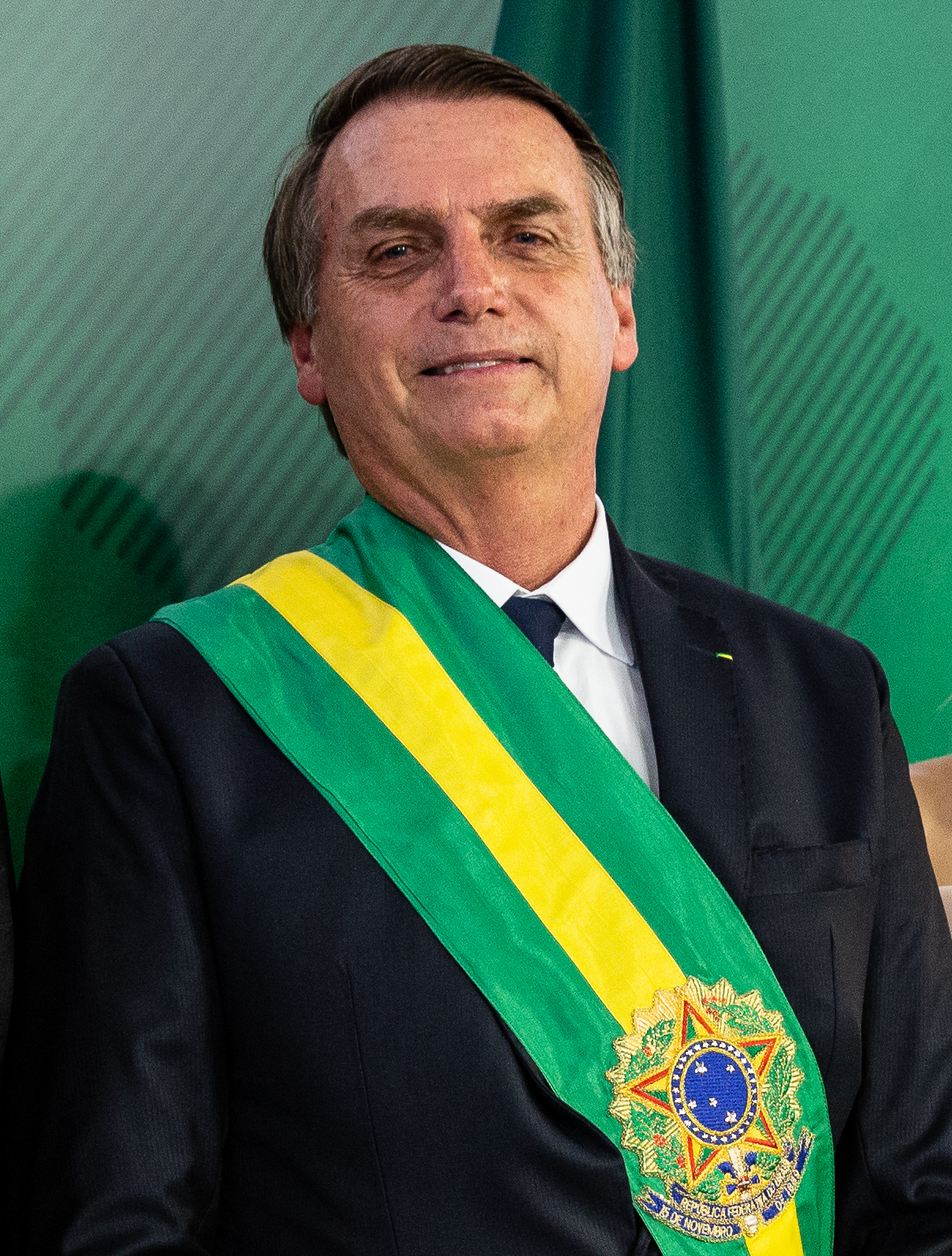 The U.S. Secretary of State Michael Pompeo arrives at Planalto Palace accompanied by his wife, Mrs. Pompeo, to participate in President Jair Bolsonaro's inauguration ceremony. (Photo: US Embassy).